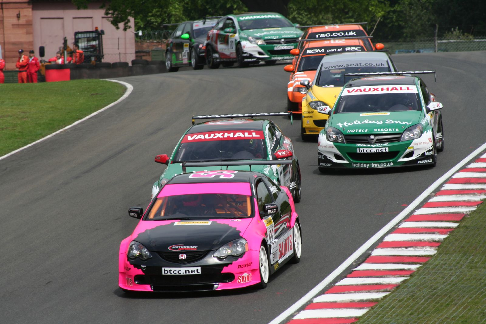 David Pinkney (Honda) leads a group of cars at the Oulton Park round of the 2006 British Touring Car Championship.